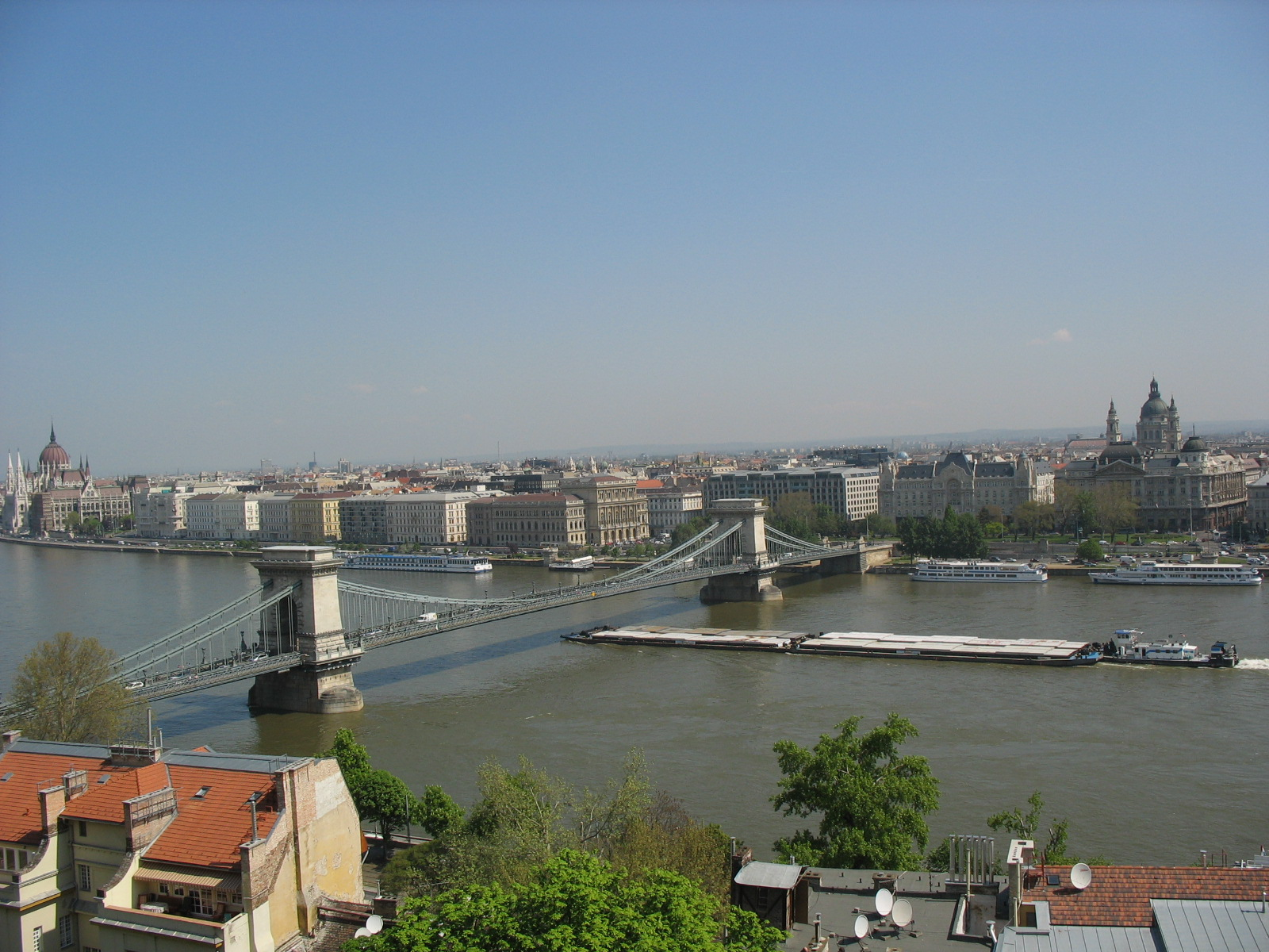 The Danube is still very much an active shipping route.